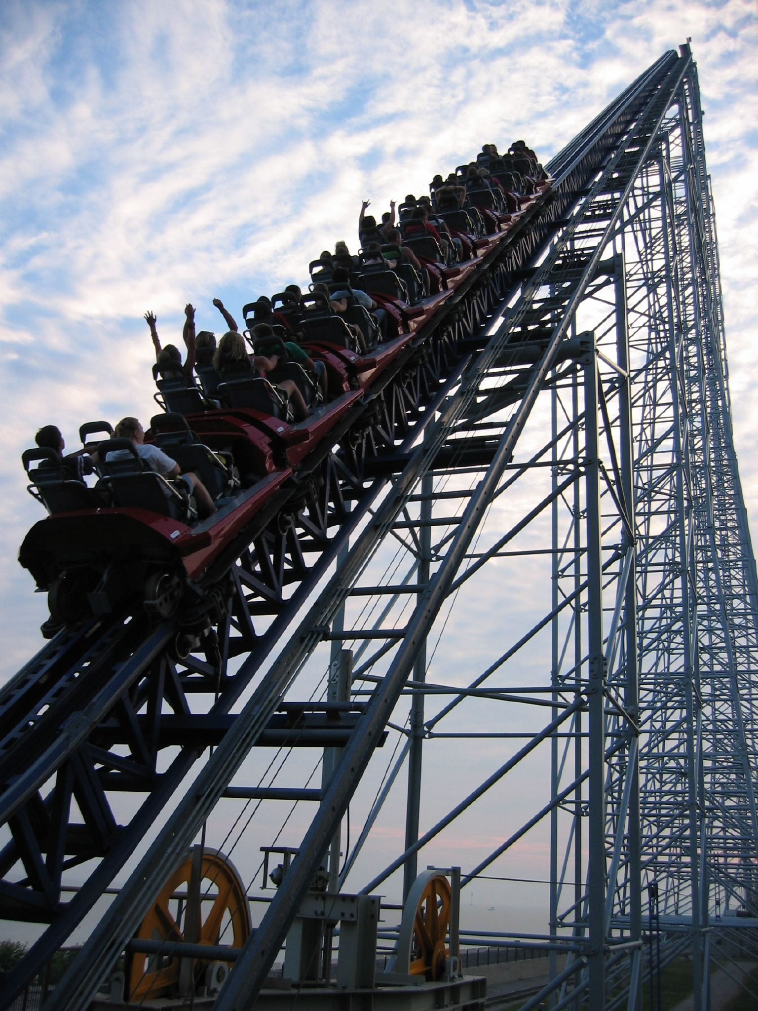 Got yelled at for taking this picture RIGHT away. Instead, I took pictures while ON the ride :)